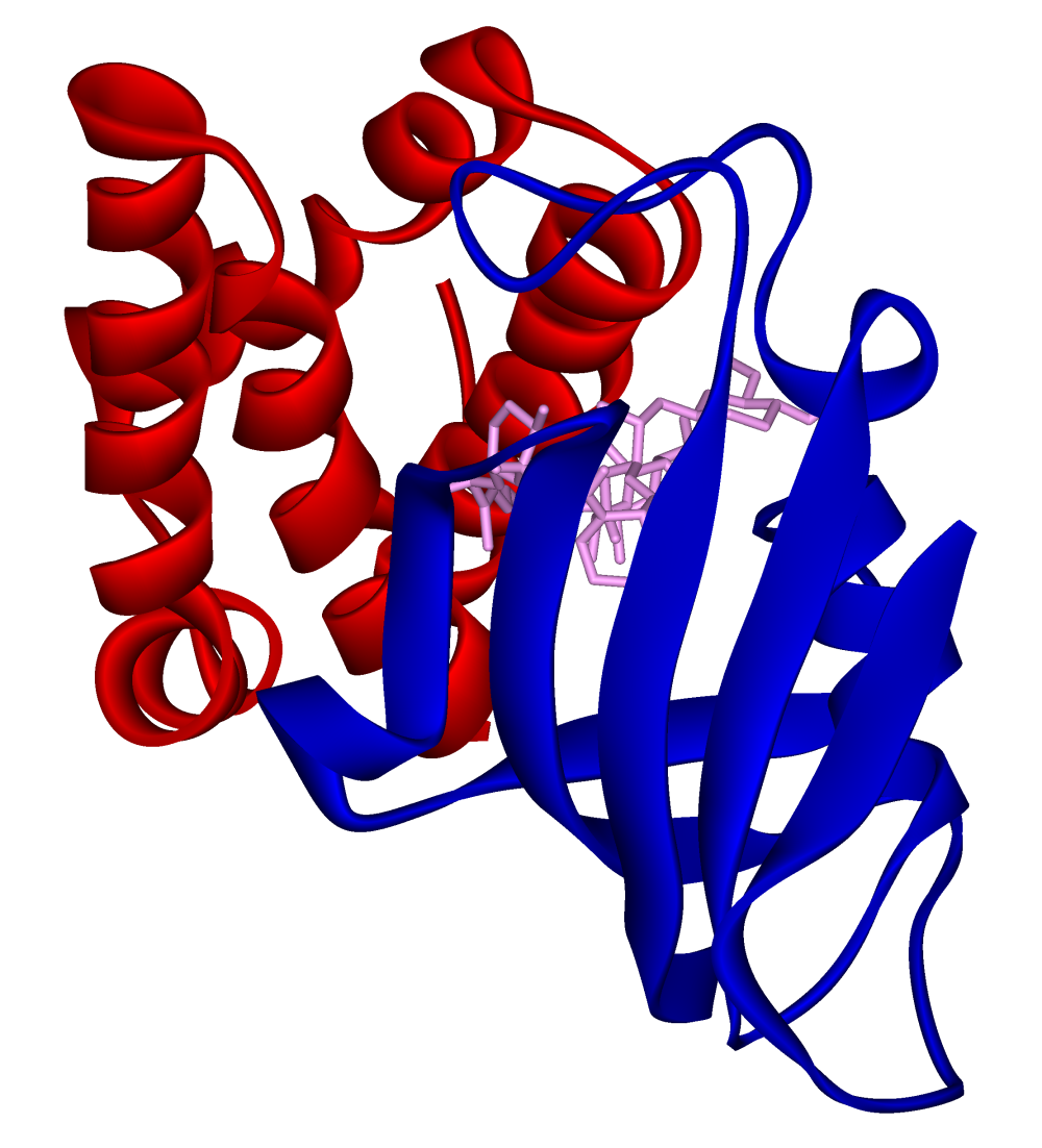 Ribbon diagram of human FKBP12 in complex with sirolimus (rapamycin) interacting with the rapamycin-binding domain of FKBP12-rapamycin complex-associated protein (mammalian target of rapamycin, mTOR). Created using Accelrys DS Visualizer Pro 1.6 and GIMP. Legend Rapamycin-binding domain of mTOR Sirolimus (rapamycin) FKBP12